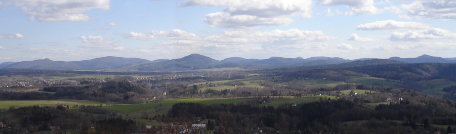 view at mountain Vlčí hora to Lužické hory (Lusatian mountains), czech republic